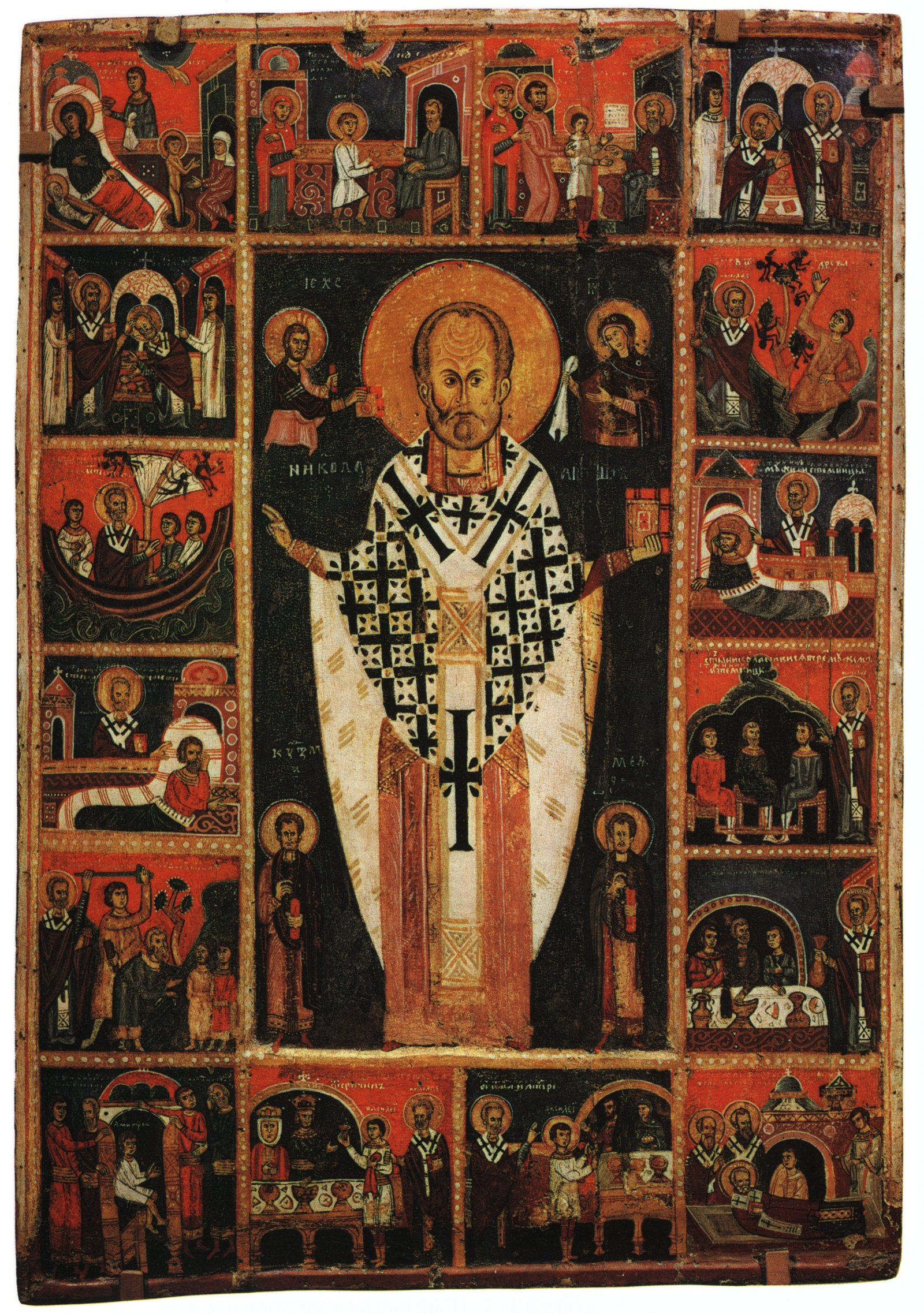 Tempera on wood, 106x76x3. Russian Museum, Sankt Petersburg, Russia